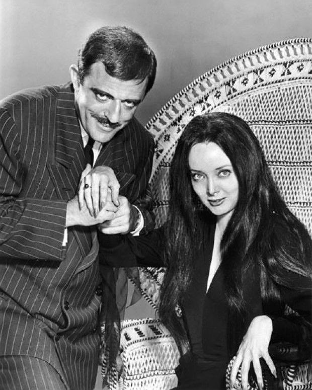 Photo of John Astin and Carolyn Jones as Gomez and Morticia Addams from The Addams Family.